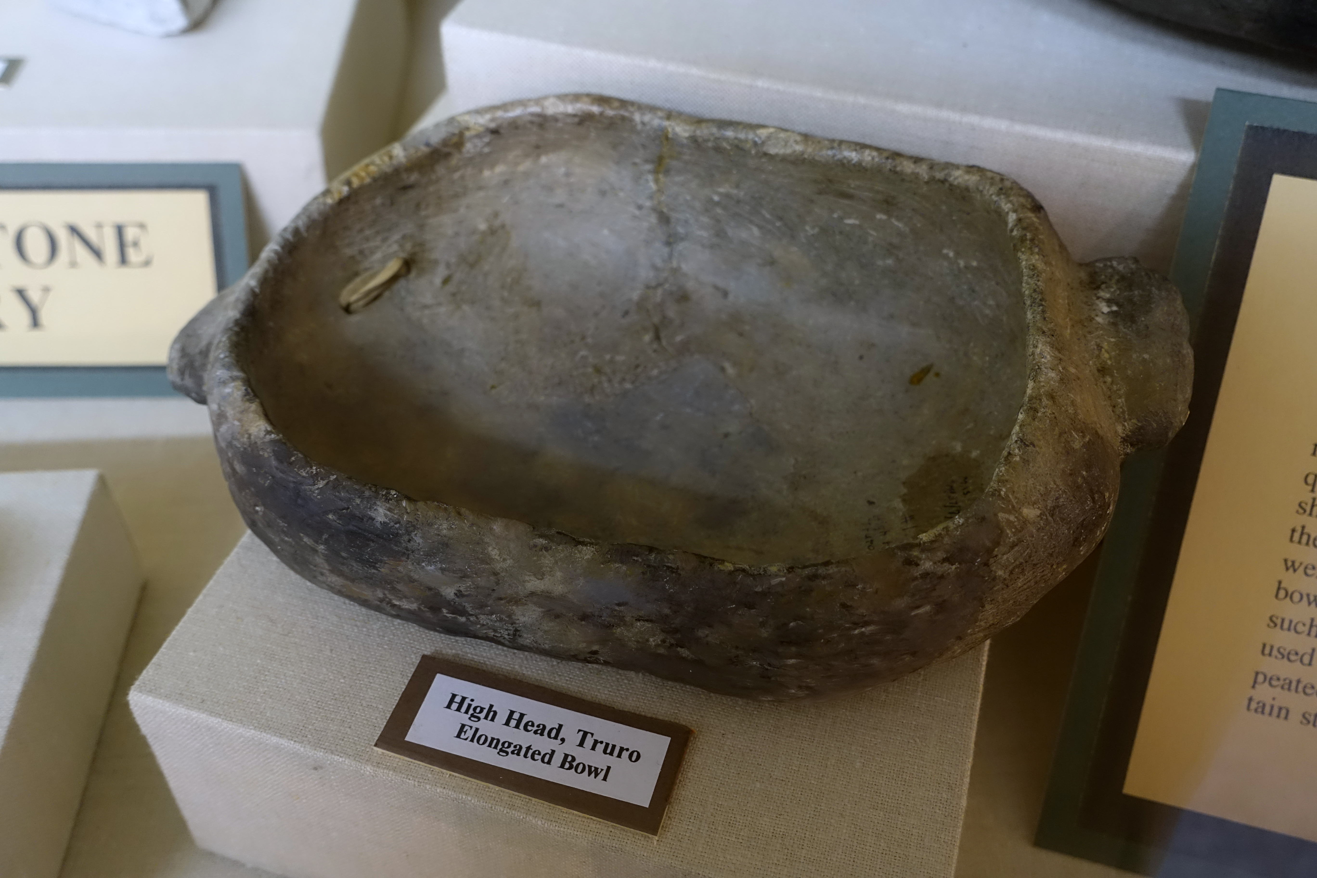 Item displayed in the Robbins Museum, 17 Jackson Street, Middleborough, Massachusetts, USA.